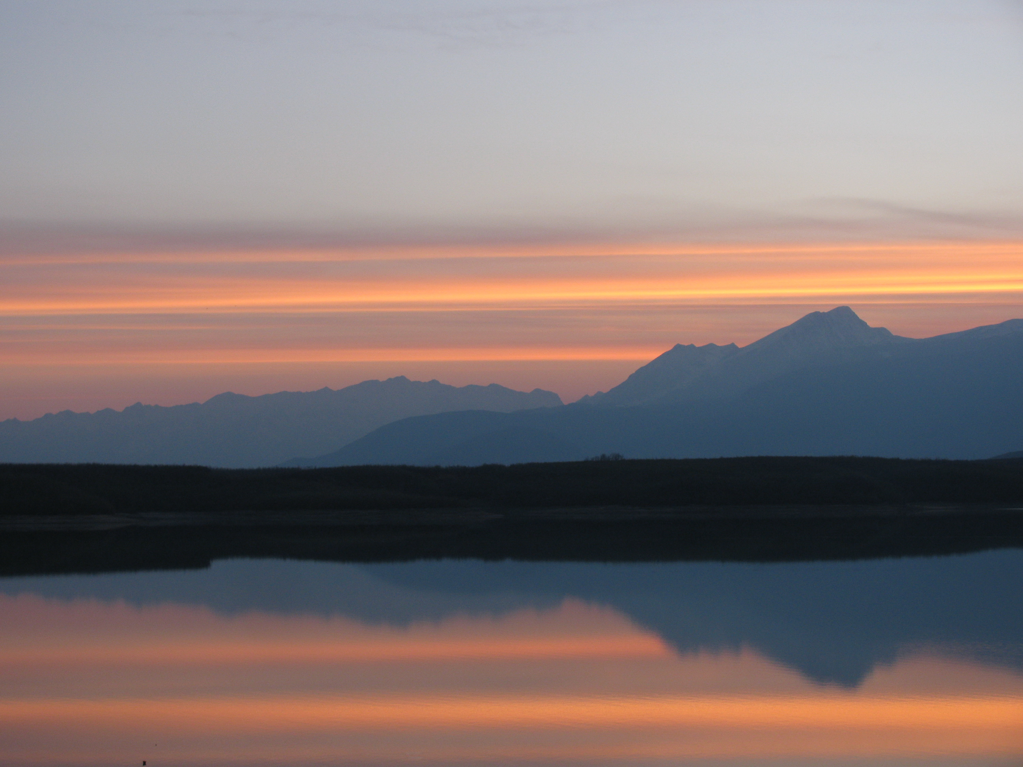 Radoniqi lake 14 km in the north of Gjakova